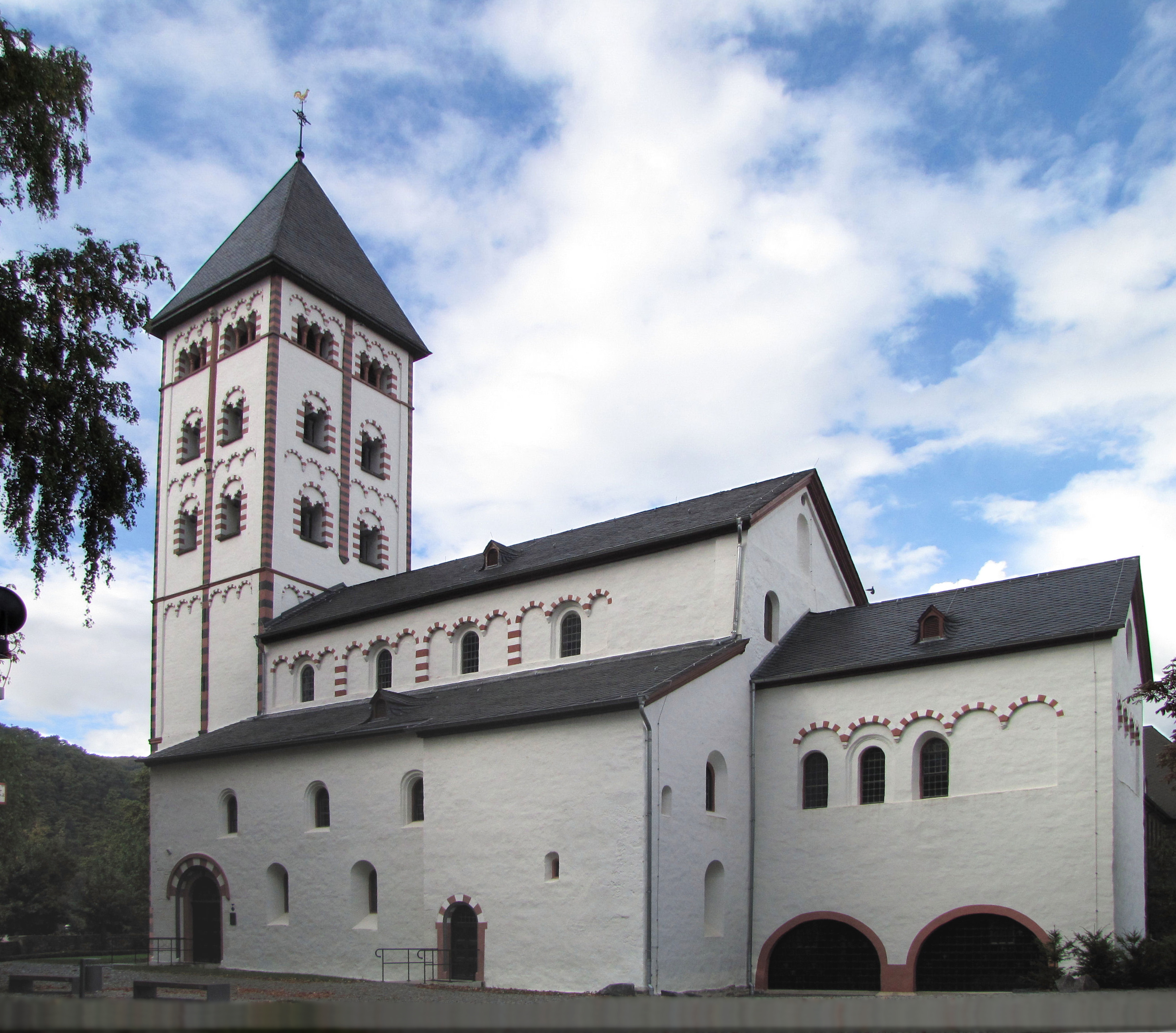 Johannis church in Lahnstein